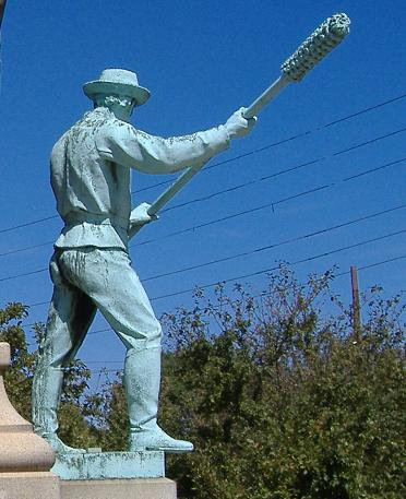 Closeup of a soldier on the Louisville Confederate Monument.